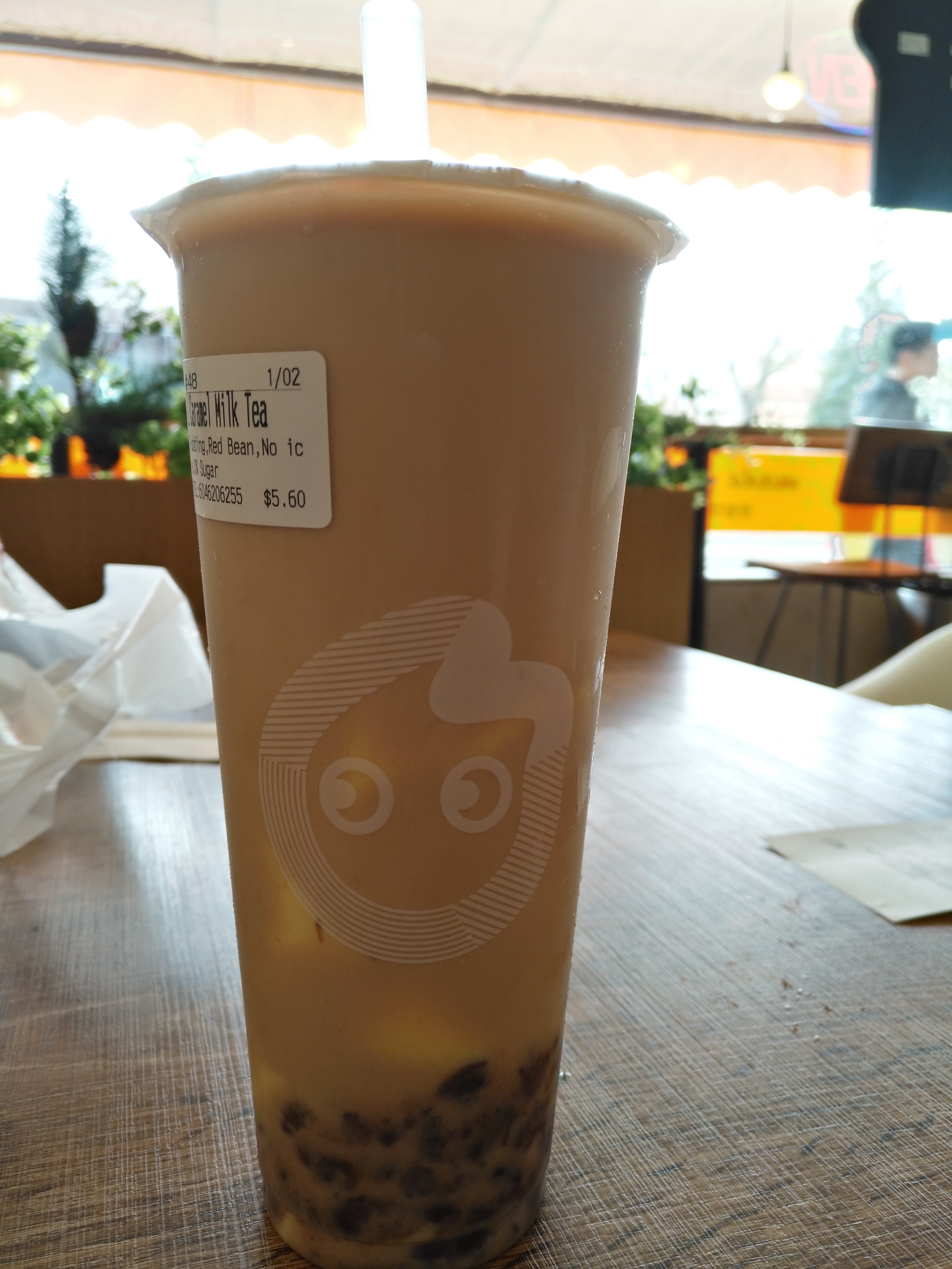 Caramel Milk Tea, which I bought in CoCo Kingsway in Vancouver, BC, Canada. It was introduced in Tik Tok app, then became popular in the Internet. The formula which introduced in Tik Tok app is pudding, highland barley, regular and no sugar, but highland barley is not available in Vancouver, so I used Adzuki bean to replace highland barley. 中文（中国大陆）: 我在都可茶饮加拿大温哥华Kingsway店买到的一杯焦糖奶茶。这款奶茶曾在抖音短视频介绍过，后来成为了“网红”，众人纷纷购买。抖音所介绍的配方为“布丁+青稞/标准冰/无糖”，但因为温哥华的CoCo买不到青稞，我只好用红豆来替代青稞。 用舌尖体来介绍：新鲜布丁、红豆与焦糖奶茶的奇妙交汇，产生出既独特又爽滑的鲜美口感。一杯奶茶，既是鲜美的味道，幸福的味道，也是思念的味道。